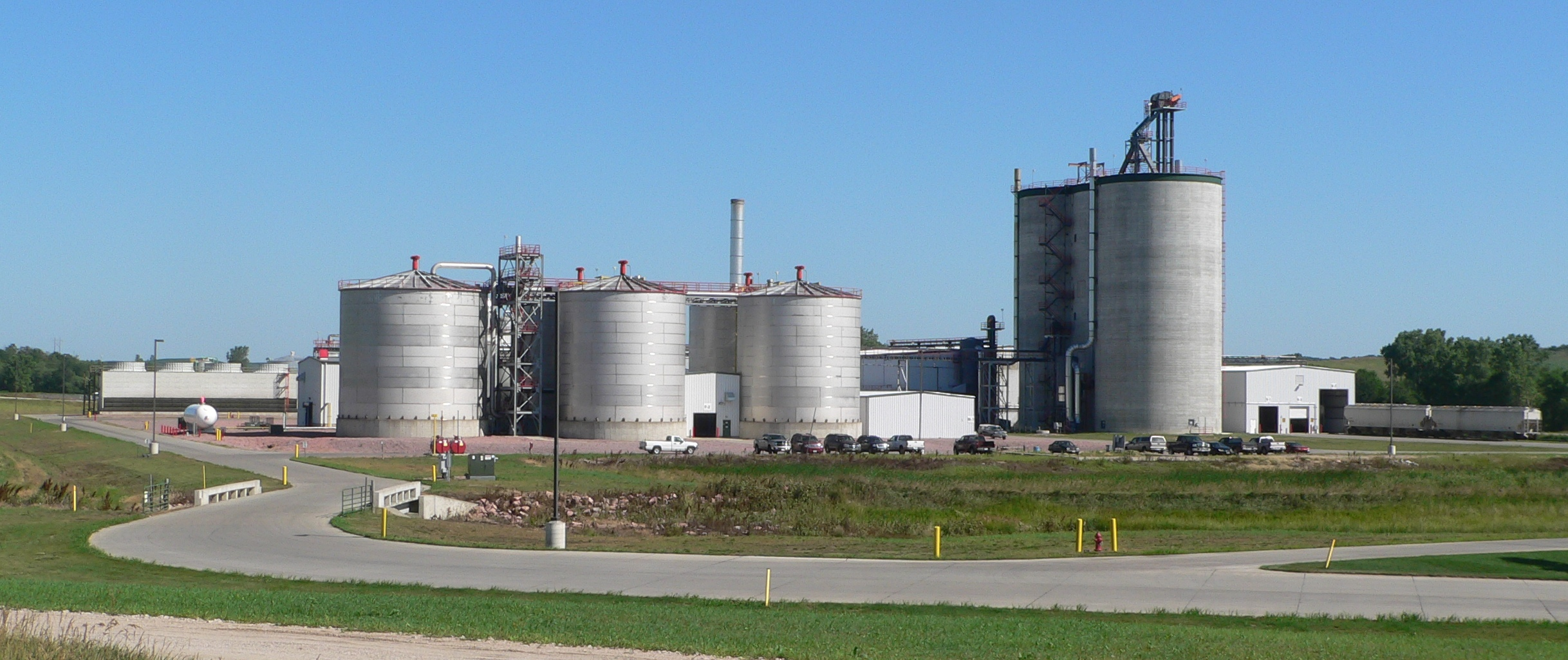 Siouxland Ethanol plant on U.S. Highway 20 west of Jackson, Nebraska.